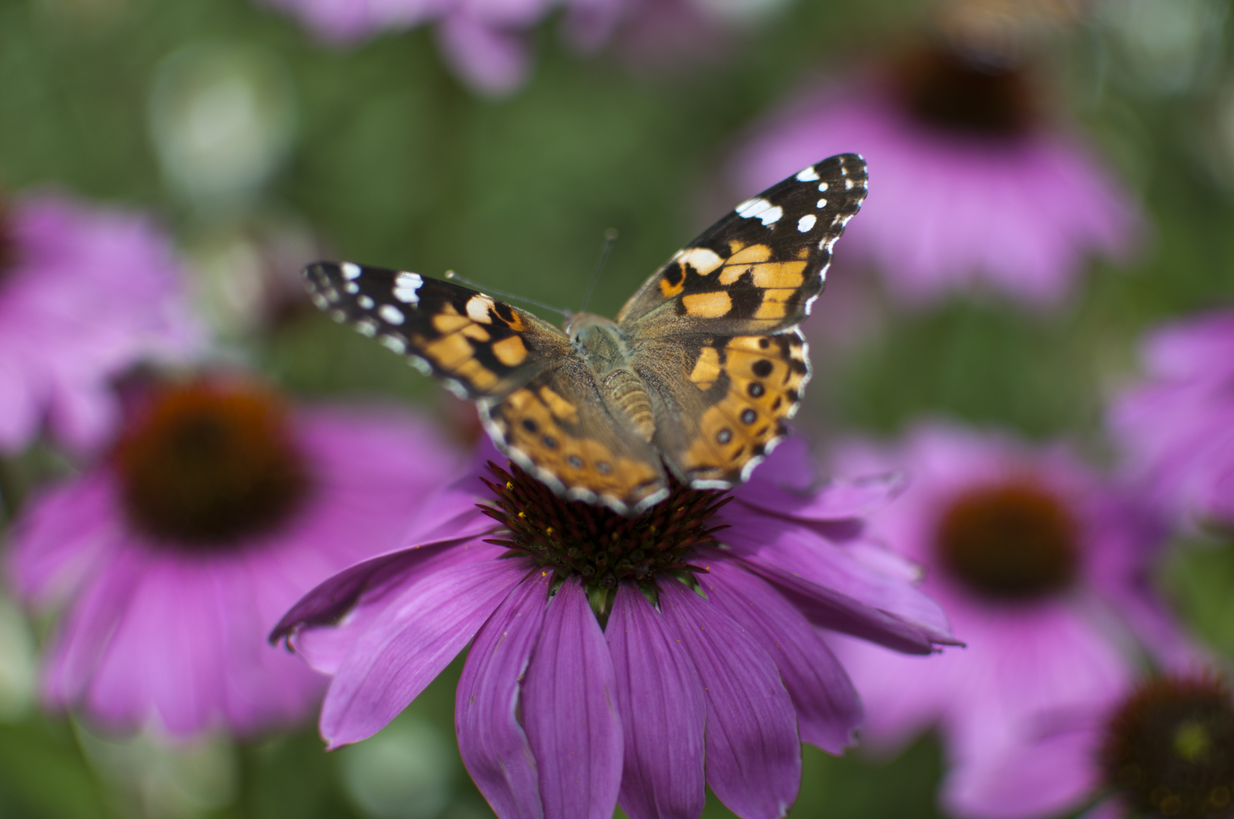 Painted Lady (Vanessa cardui) on a Echinacea purpurea taken at Lowell Observatory's gardens in Flagstaff, Arizona.